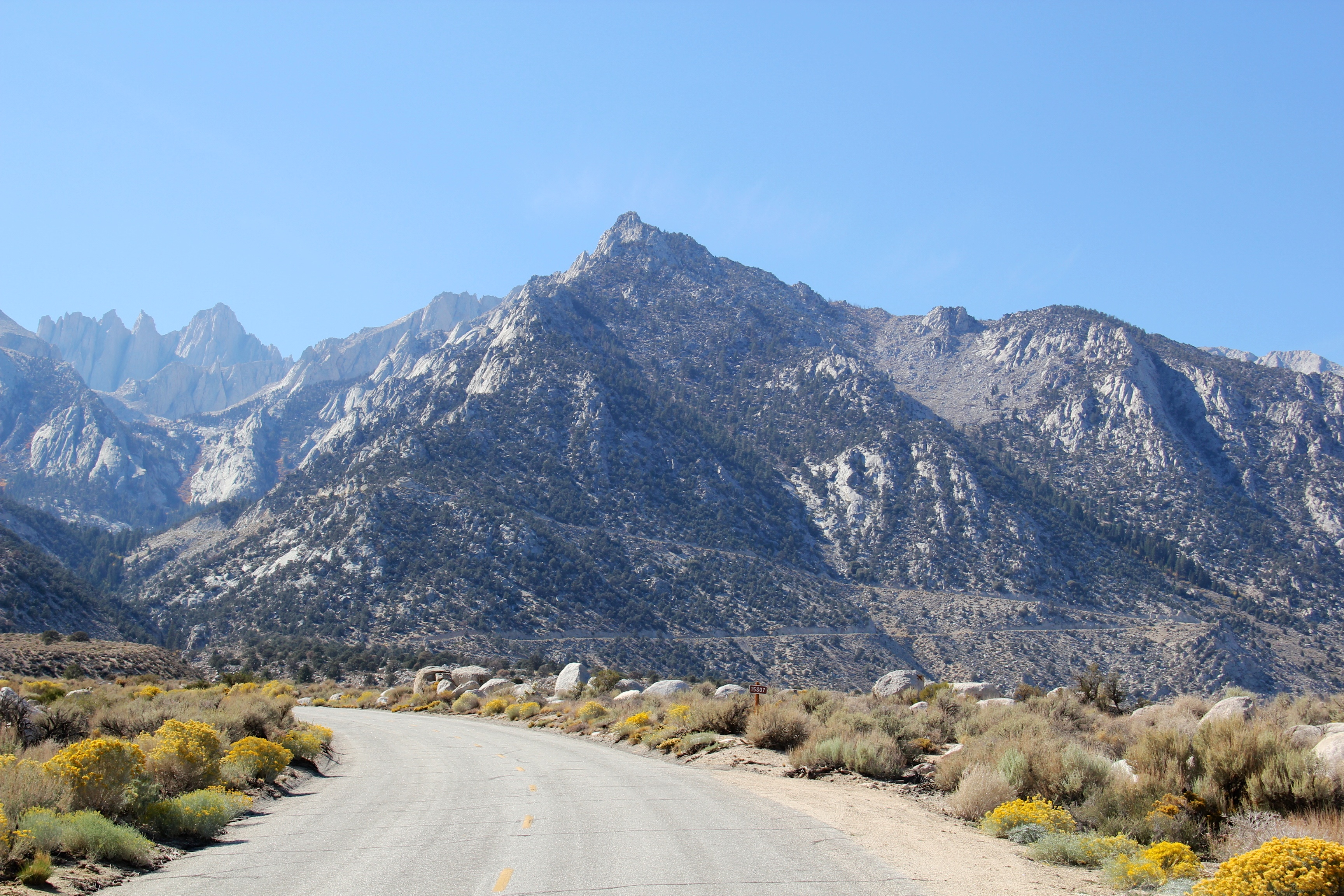 @ Whitney Portal Road, Lone Pine, California